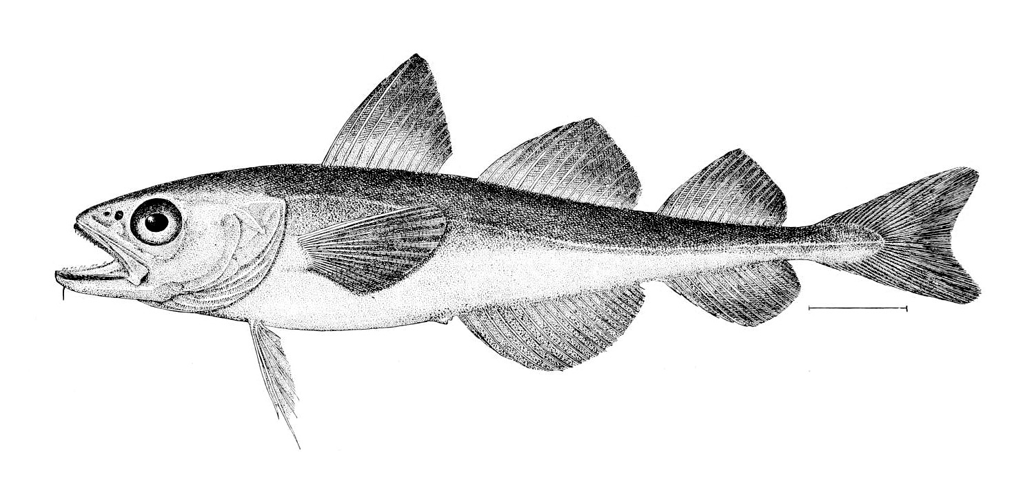 Polar cod, Boreogadus saida. The specimen #21746, U. S. National Museum, collected at Annanactook Harbor, Cumberland Gulf, by Ludwig Kumlien on October 19, 1877.